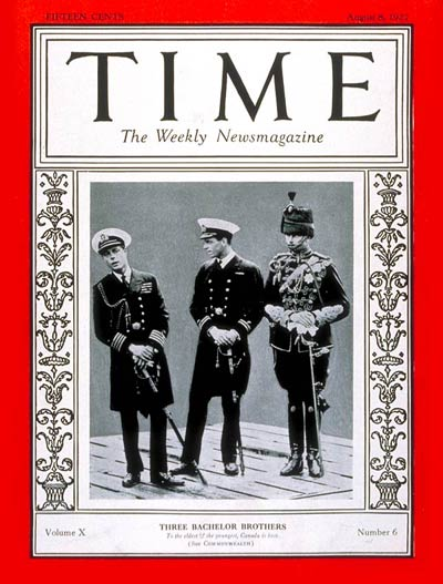 British princes (left to right) Edward, George, Henry.